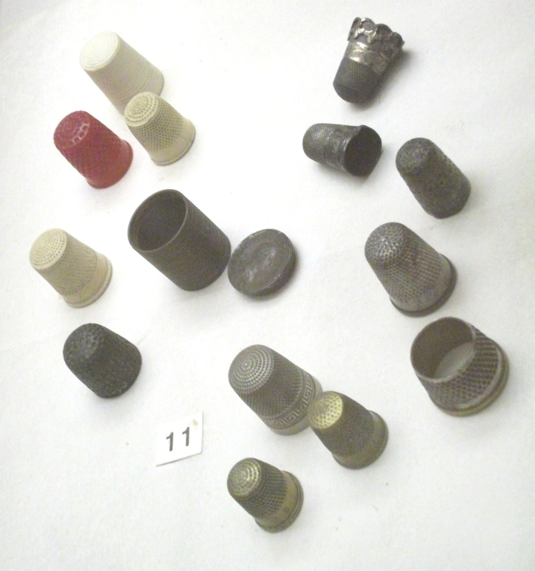 A group of thimbles on display in Bedford Museum. In the middle of the group is a thimble box with its lid.